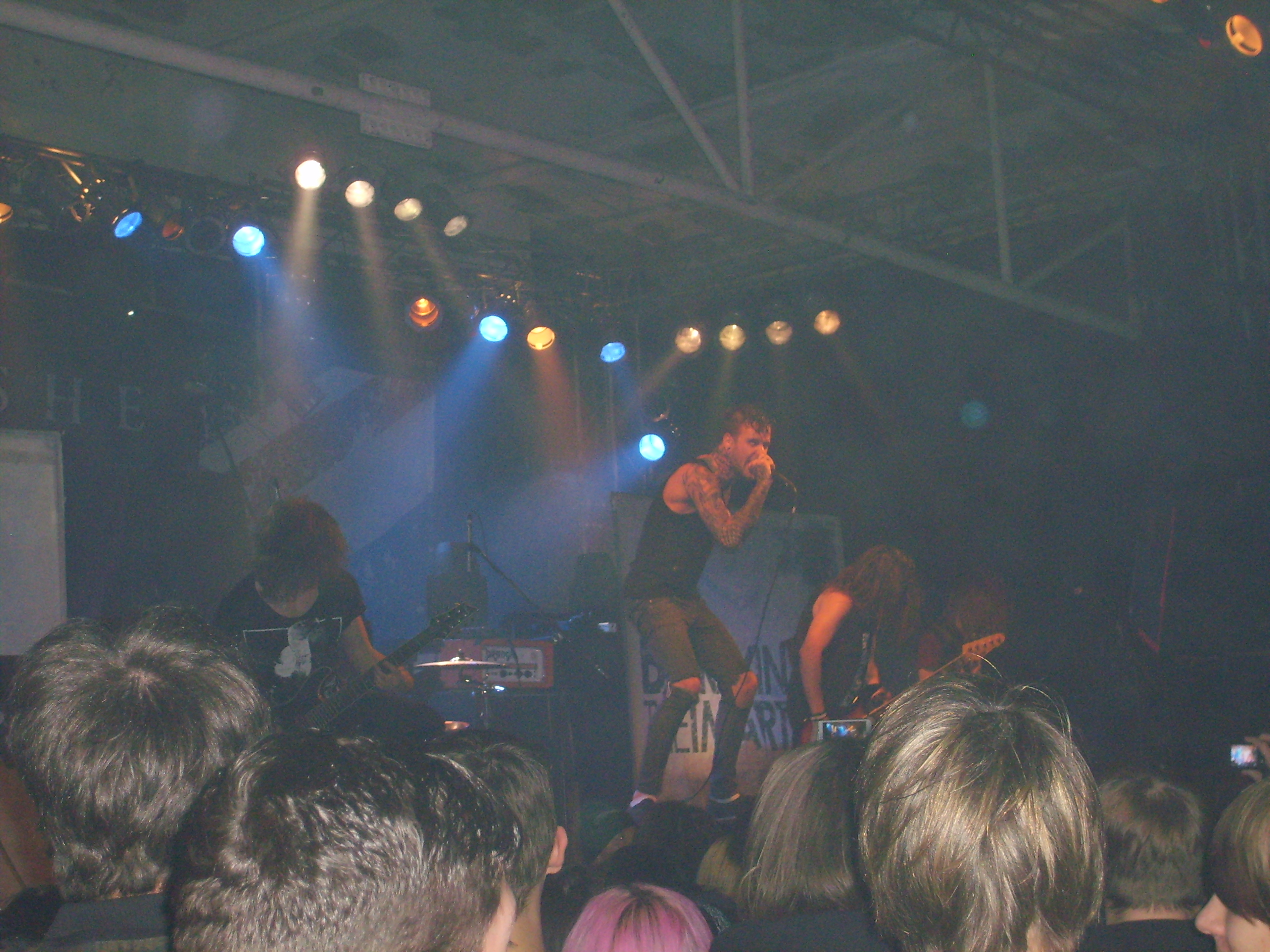 Betraying the Martyrs live in Cologne